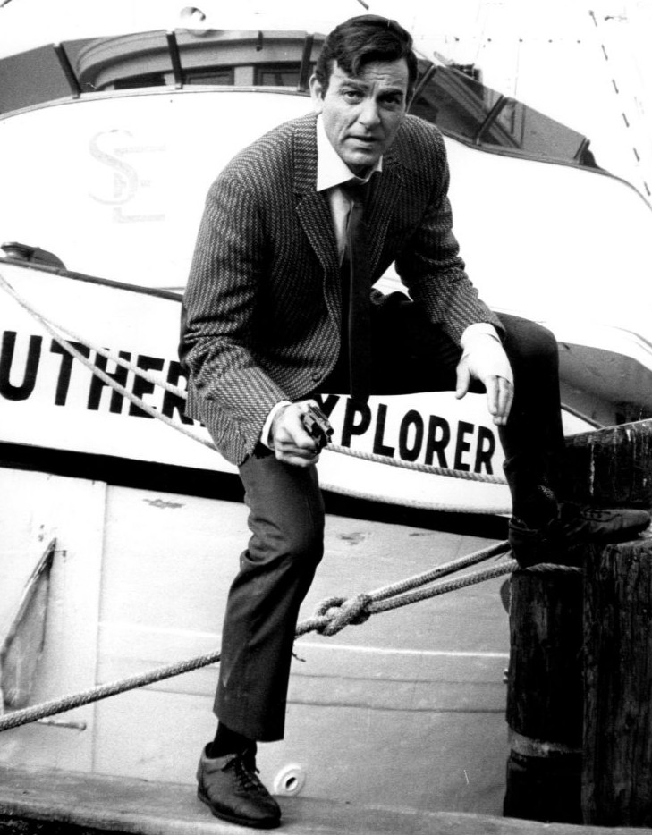 Photo of Mike Connors as the title character from the television program Mannix.